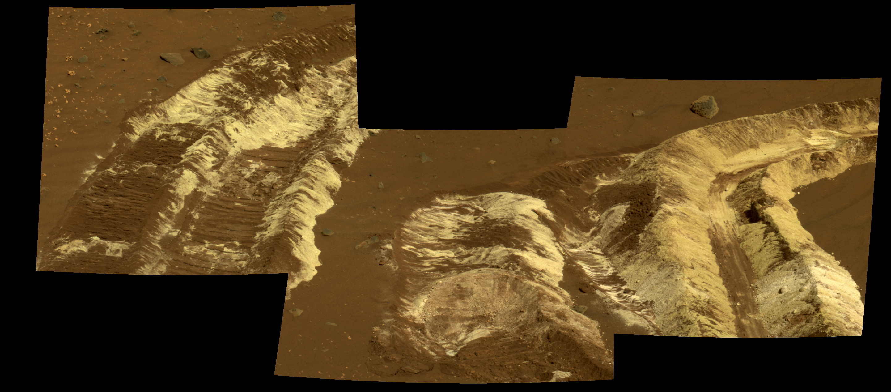 While driving eastward toward the northwestern flank of "McCool Hill," the wheels of NASA's Mars Exploration Rover Spirit churned up the largest amount of bright soil discovered so far in the mission. This image from Spirit's panoramic camera (Pancam), taken on the rover's 788th Martian day, or sol, of exploration (March 22, 2006), shows the strikingly bright colors and large extent of the materials uncovered. Several days earlier, Spirit's wheels unearthed a small patch of light-toned material informally named "Tyrone." In images from Spirit's panoramic camera, "Tyrone" strongly resembled both "Arad" and "Paso Robles," two patches of light-toned soils discovered earlier in the mission. Spirit found "Paso Robles" in 2005 while climbing "Cumberland Ridge" on the western slope of "Husband Hill." In early January 2006, the rover discovered "Arad" on the basin floor just south of "Husband Hill." Spirit's instruments confirmed that those soils had a salty chemistry dominated by iron-bearing sulfates. Spirit's Pancam and miniature thermal emission spectrometer examined this most recent discovery, and researchers will compare its properties with the properties of those other deposits. These discoveries indicate that salty, light-toned soil deposits might be widely distributed on the flanks and valley floors of the "Columbia Hills" region in Gusev Crater on Mars. The salts, which are easily mobilized and concentrated in liquid solution, may record the past presence of water. So far, these enigmatic materials have generated more questions than answers, however, and as Spirit continues to drive across this region in search of a safe winter haven, the team continues to formulate and test hypotheses to explain the rover's most fascinating recent discovery. This view is an approximately true-color rendering that combines separate images taken through the Pancam's 753-nanometer, 535-nanometer, and 432-nanometer filters.